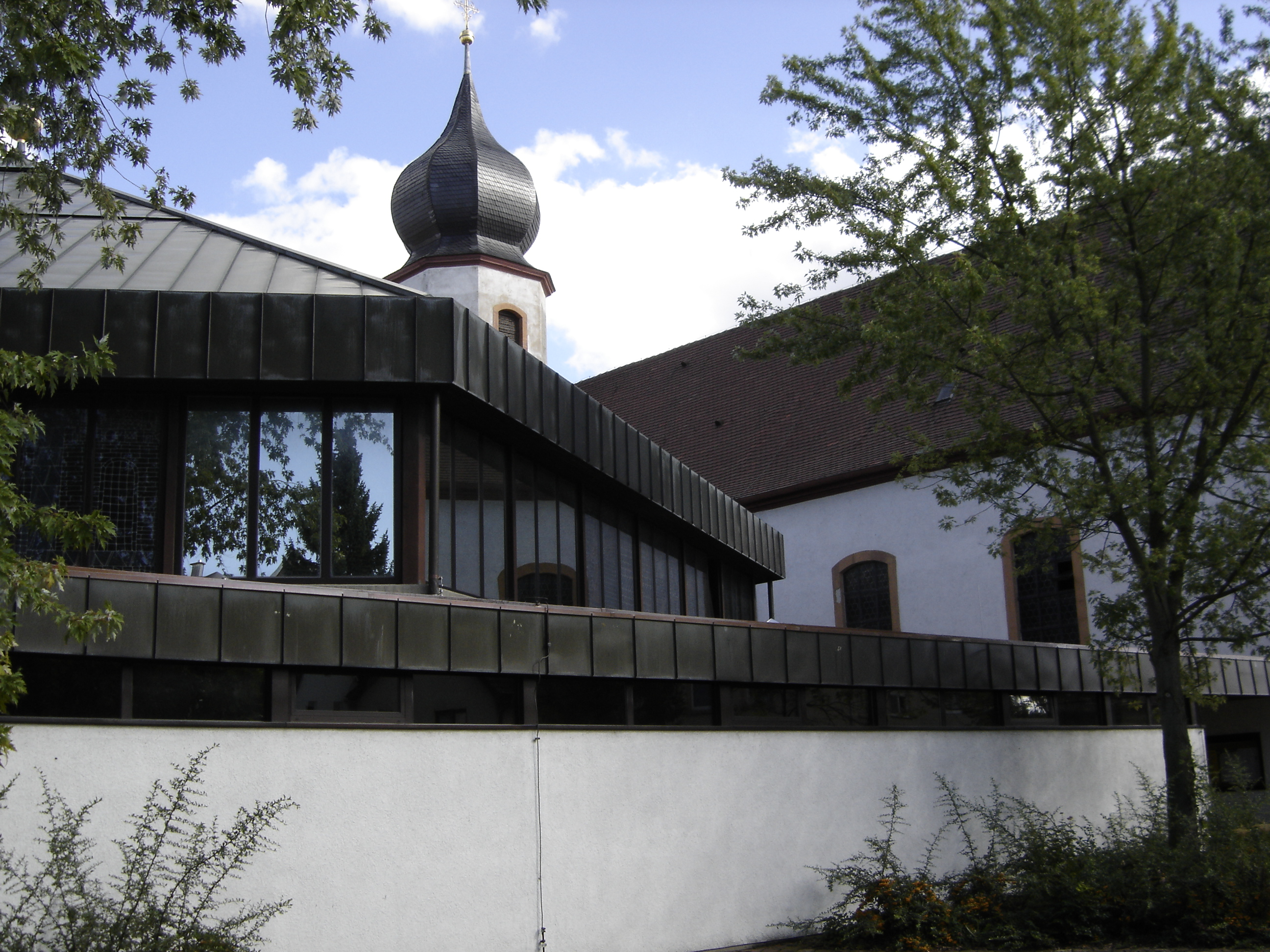 Catholic Church Heddesheim, Germany